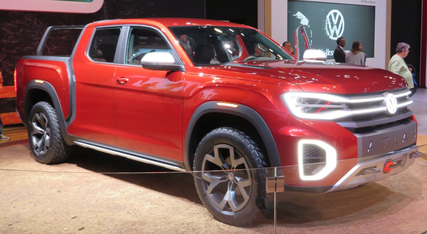 In New York International Auto Show, at Manhattan, New York